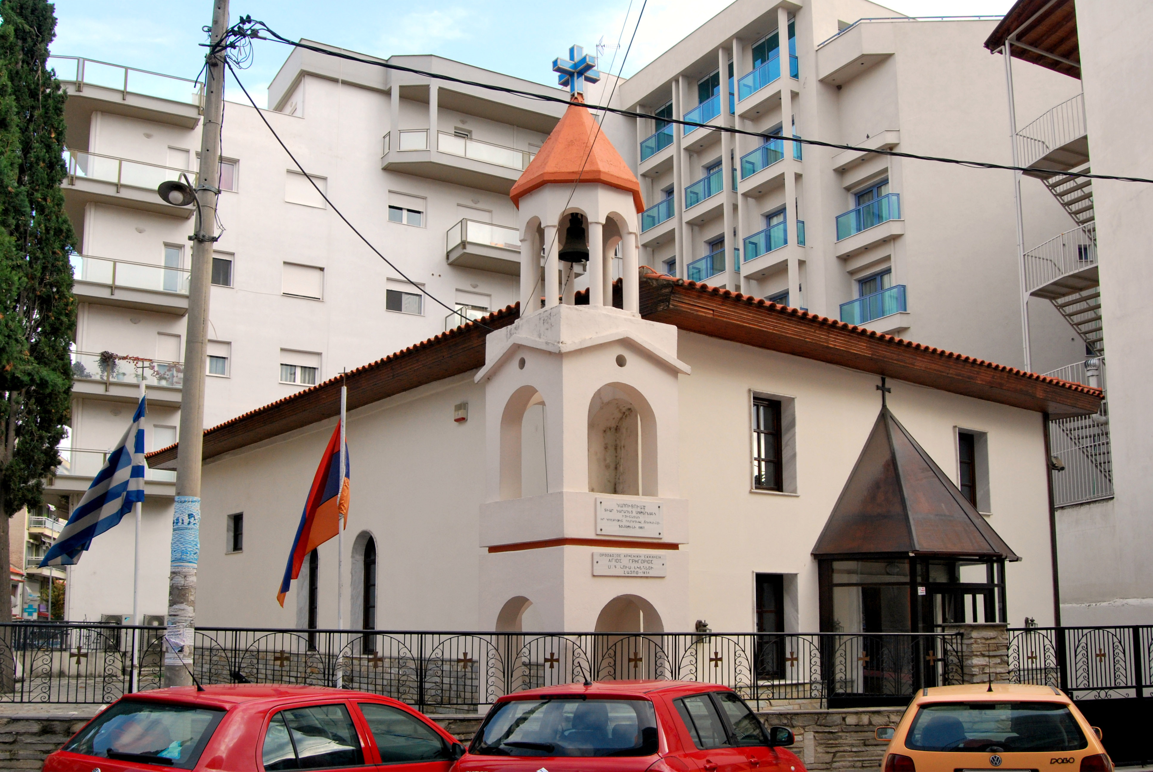 Armenian church of St. Gegory the Illuminator (Sourp Krikor Lousavorits) - 1834, Komotini, Rhodope, Greece.